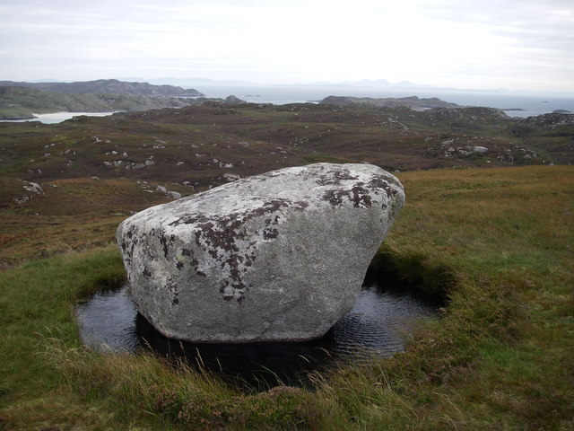 Rock-pool A rock (possibly a glacial erratic) situated near the summit of the island of Erraid, with its own pool. The Paps of Jura in the far distance.